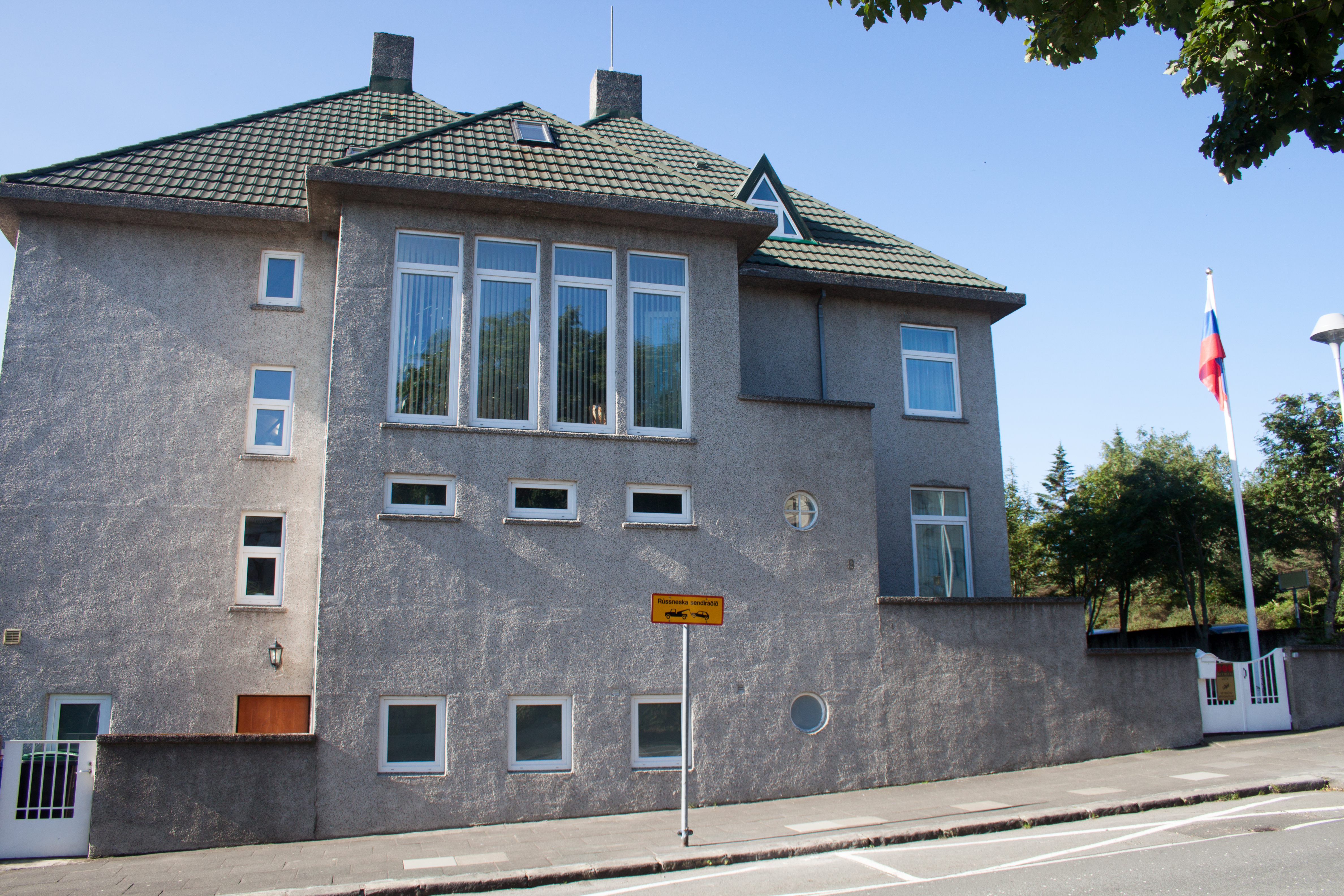 Embassy of Russia in Reykjavík